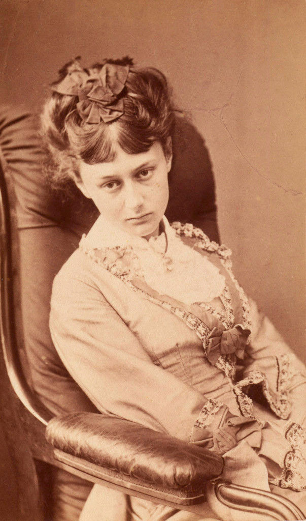 Charles Lutwidge Dodgson (Lewis Carroll), Alice Pleasance Liddell 25 June 1870